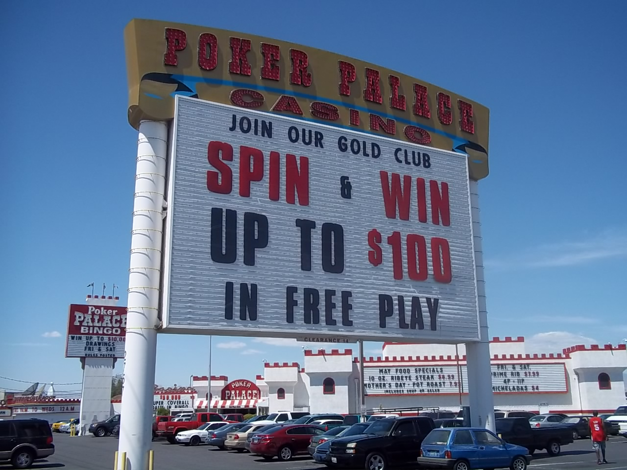 A sign for the Poker Palace casino in North Las Vegas.